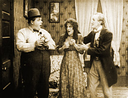 Stills When Love Took Wings in 1915.